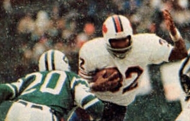 Buffalo Bills' running back O.J. Simpson rushing the ball against the New York Jets on December 16, 1973, breaking the NFL's single-season rushing record.